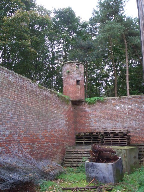 Owlery at Morton on the Hill A purpose built owl house, to encourage owls which control vermin, at the Home Farm on the Morton Hall estate. It is believed to be a unique example of a purpose-built owlery (usually they are incorporated into other buildings).